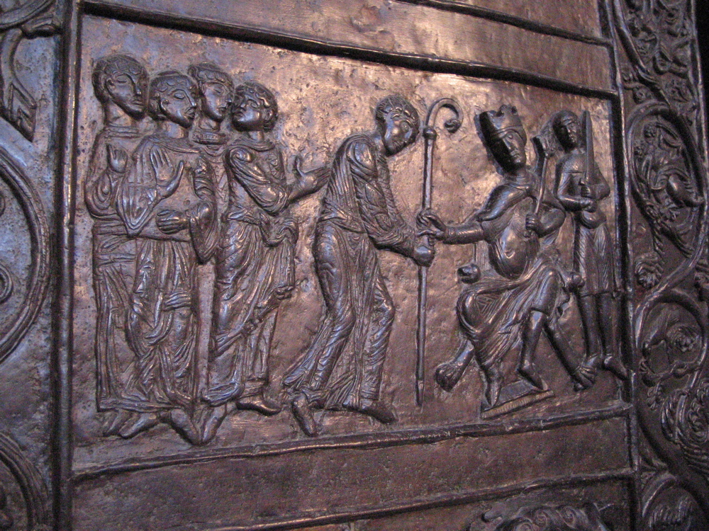 Gniezno Doors, St. Adalbert becomes bishop